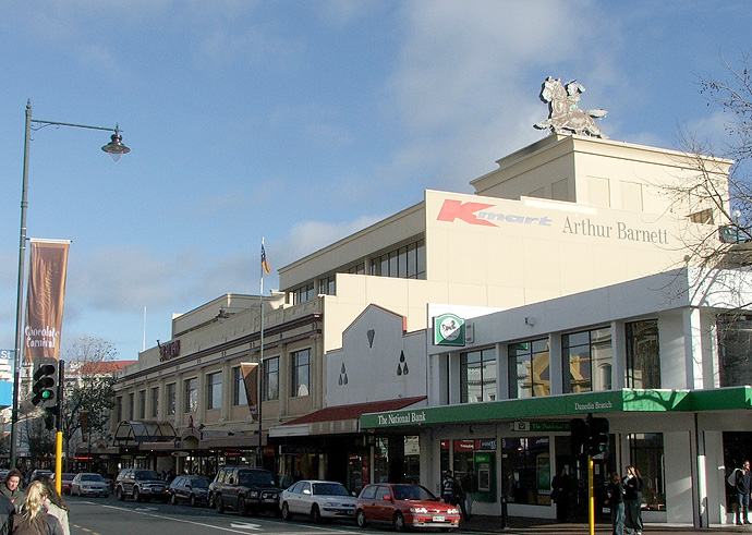 Meridian Mall, Dunedin, Dunedin, New Zealand, Looking southwest